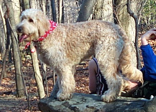 1 year old Goldendoodle, Bailey